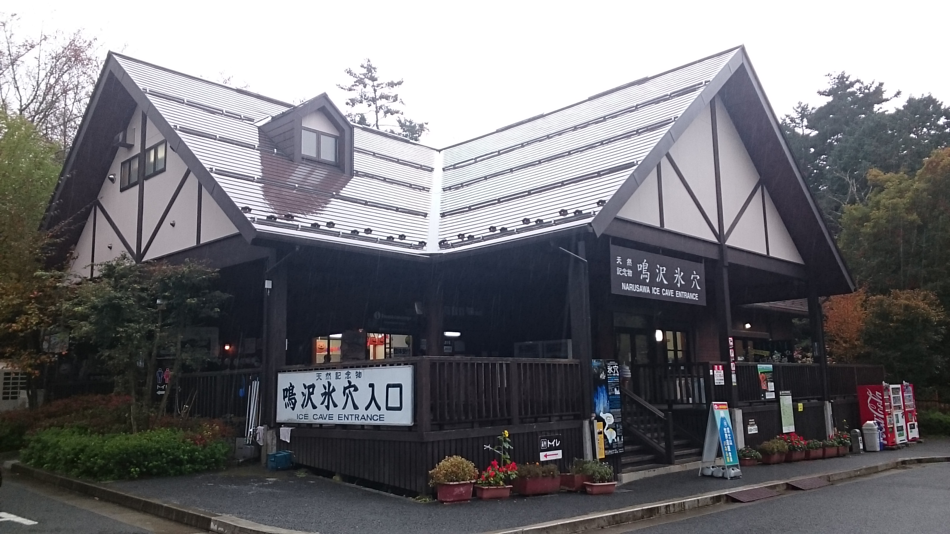 The entrance to Narusawa ice cave in October 25,2016. Narusawa, Minamitsuru, Yamanashi, Japan.